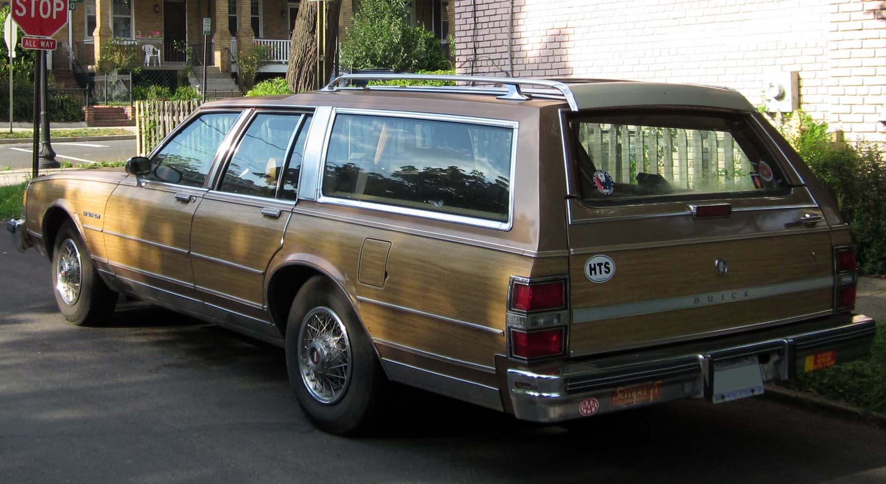 Buick Estate Wagon photographed in Washington, D.C., USA.